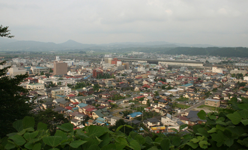 View of Ichinoseki-city, looking northeast from atop Tsuriyama park. The Ichinoseki shinkansen station can be seen in the distance.